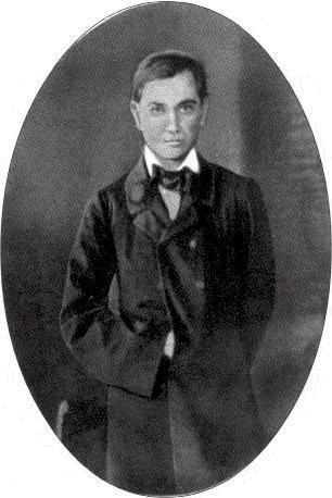 Daniel Chonkadze